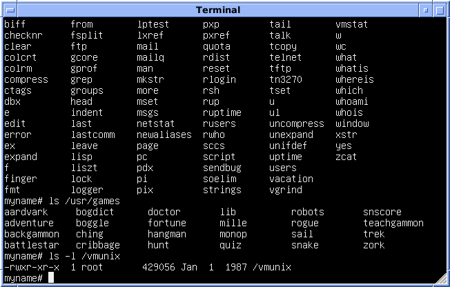 4.3 BSD from the University of Wisconsin, running in the SIMH VAX-11/780 simulator with 16MB memory. The system describes itself as "4.3 BSD UNIX" and "4.3+NFS", and it dates to around January 1987. Listing files from "/usr/ucb", "/usr/games", and looking at the size and date of the kernel.